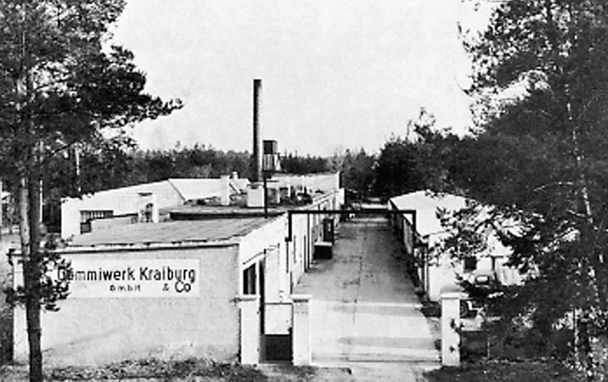 Gummiwerke KRAIBURG in Waldkraiburg, Germany